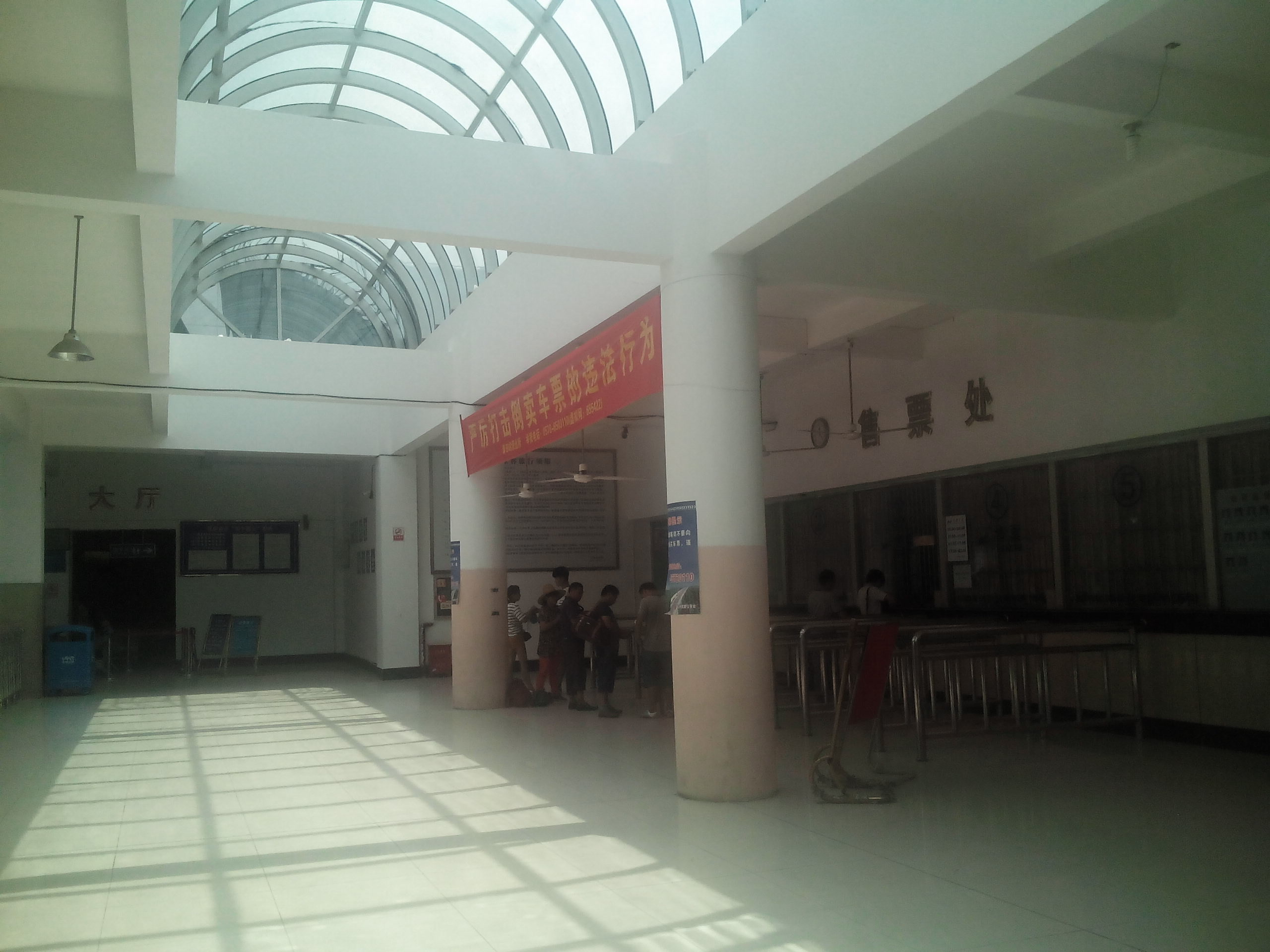 082015 Lobby of Qingtian Railway Staion